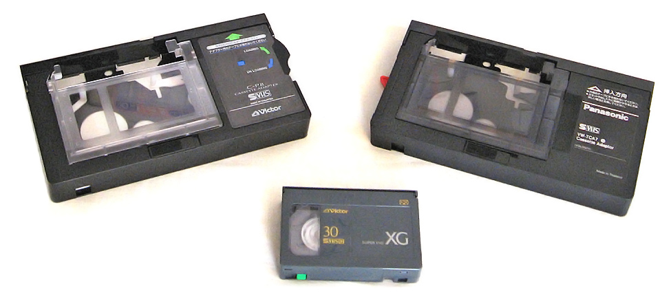 Two VHS-C to full-size-VHS adaptors (top) and a VHS-C cassette (front)